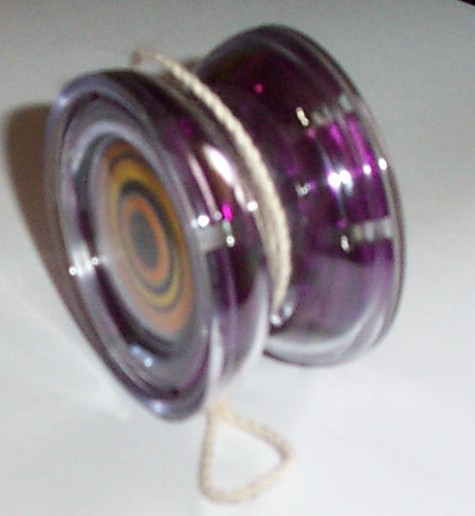 Butterfly design yoyo